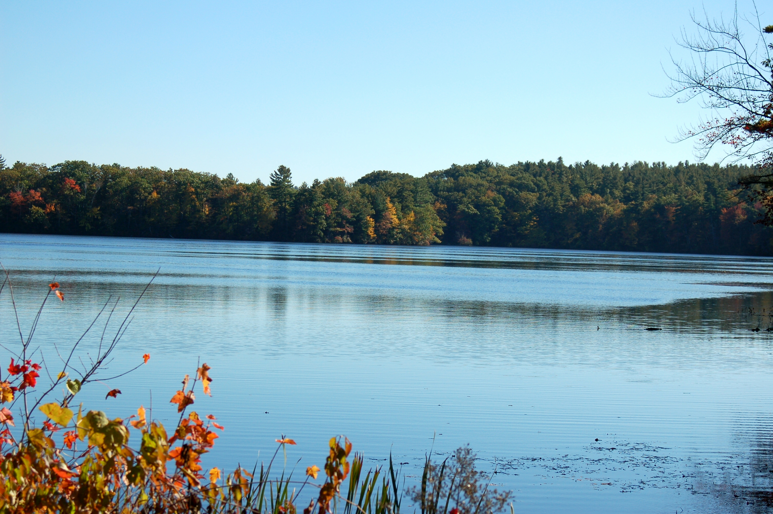 Quinapoxet River at Holden, MA. Photo by Author, Richard B. Johnson